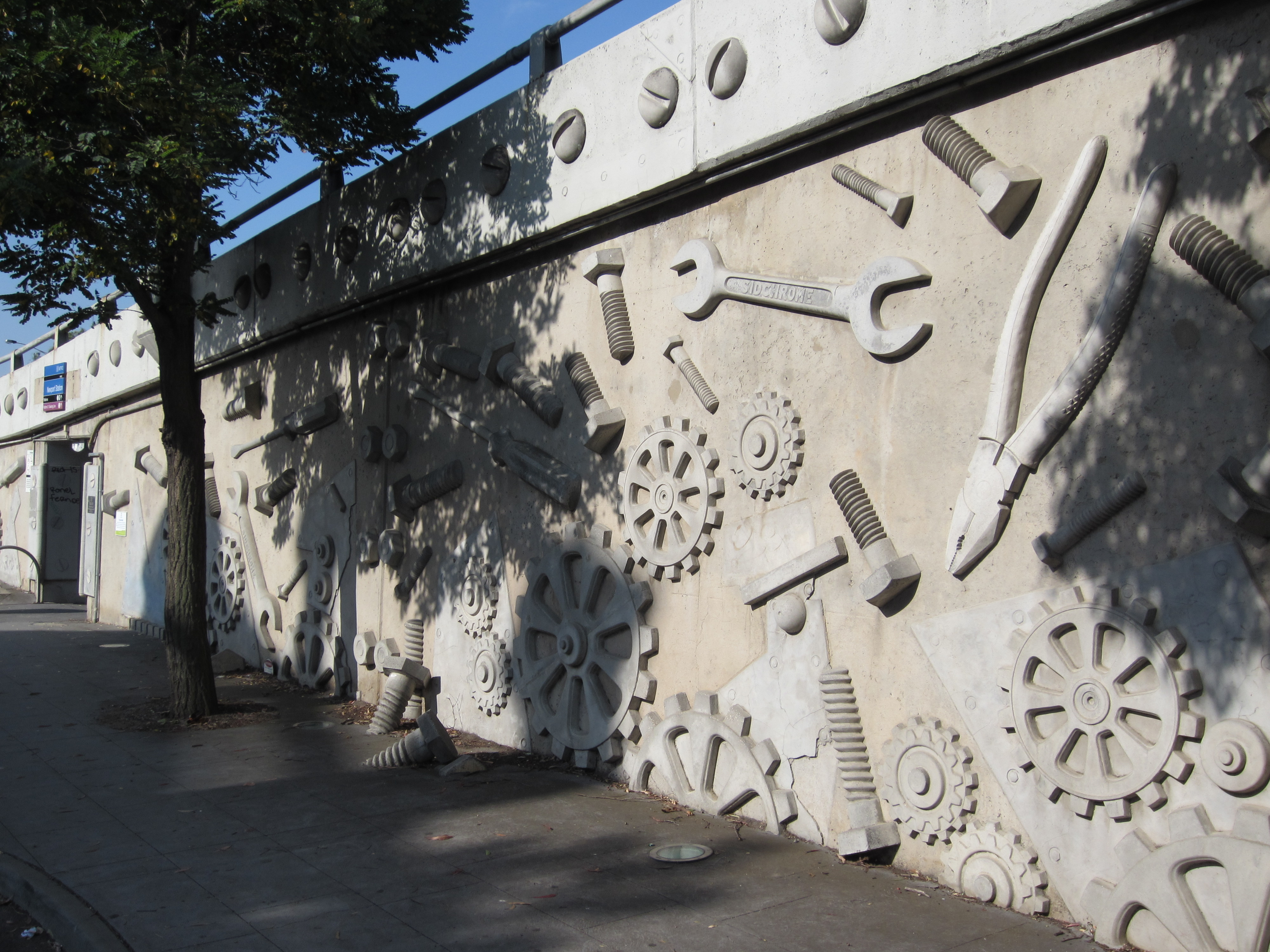 'Nuts and Bolts' by Geoff Hogg and Enver Cambdel (1995) at Newport Railway Station - Newport, Victoria